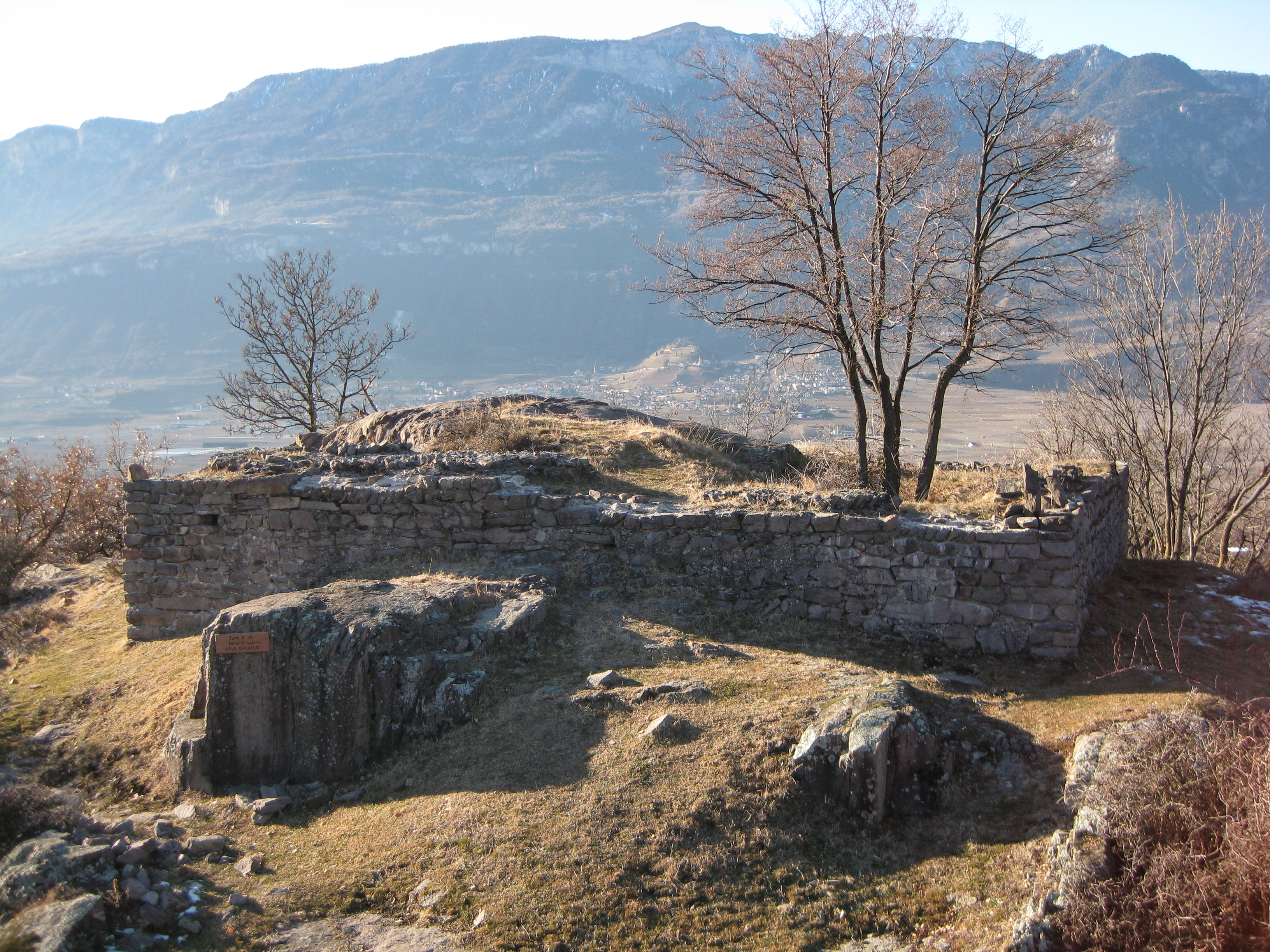 Leftovers of a tower from the 6th century on Castelfeder